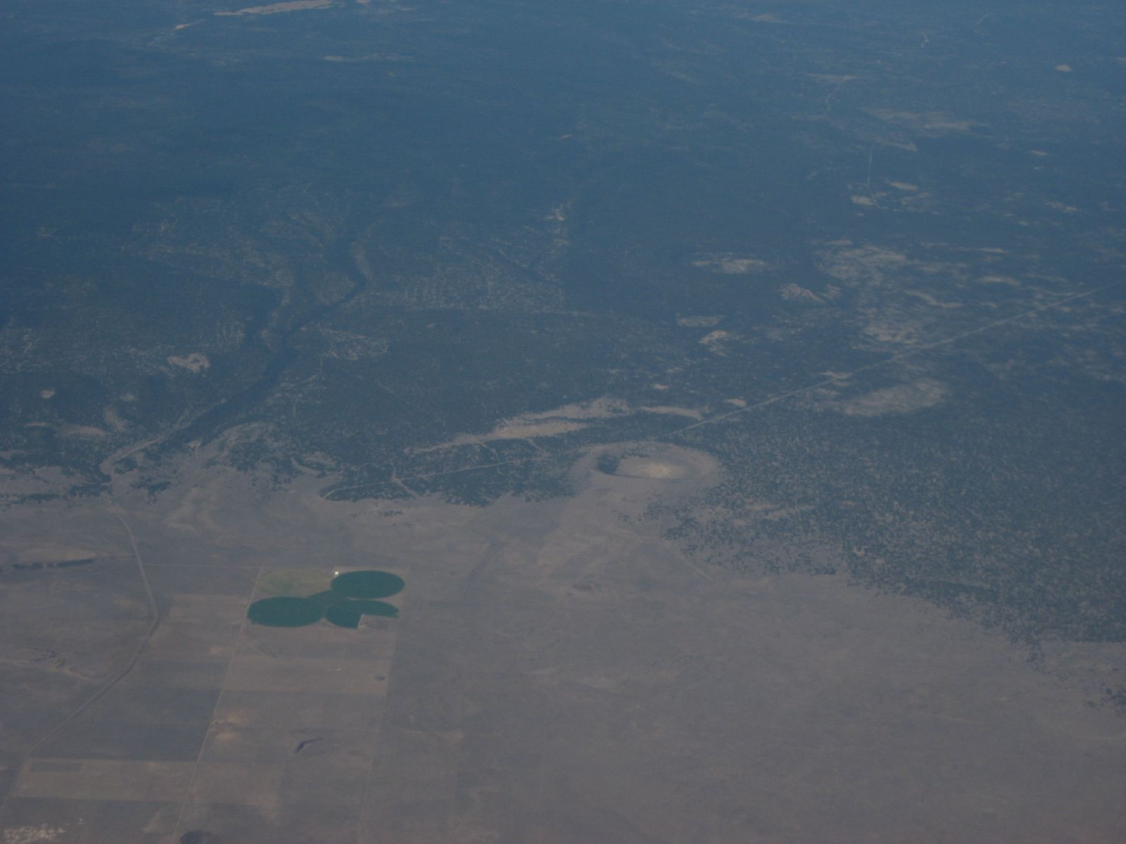 aerial view of Hole-in-the-Ground, Oregon